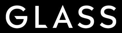 Glass official theatrical logo